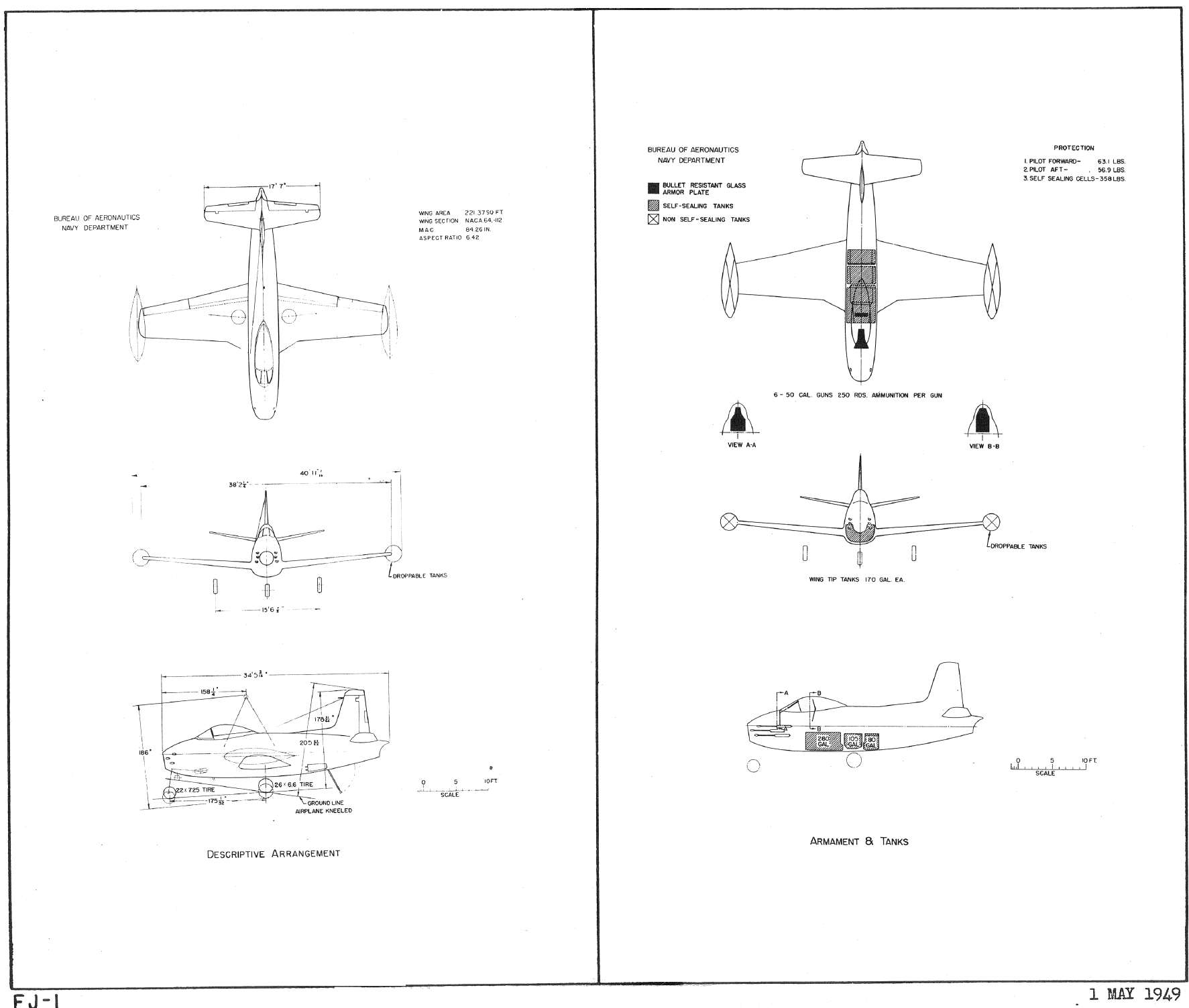 Line drawings for the North American FJ-1 Fury fighter.